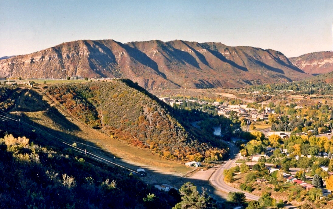 Smelter Mountain and Durango Colorado in October 1986. Looking south at the north aspect of Smelter Mountain.